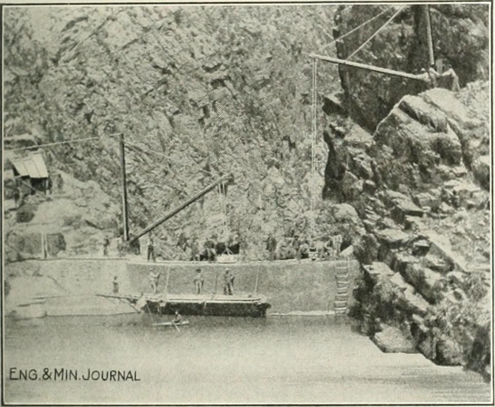 Llallagua Dam - Hydro-Electric Plant at a Bolivian Tin Mine (The Engineering & Mining Journal, 2 Jan 1915)